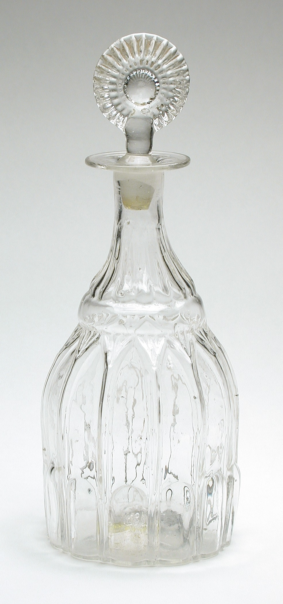 United States, 1820-1840 Furnishings; Serviceware Glass Gift of the Reverend W. Daniel Quattlebaum in memory of Edith Brockett Quattlebaum (56.35.30a-b) Decorative Arts and Design